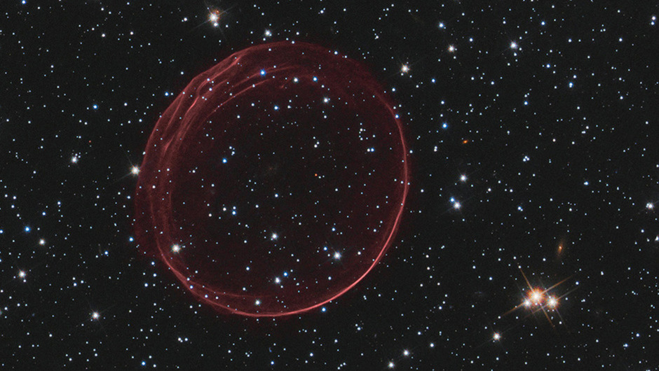 A delicate sphere of gas, photographed by NASA's Hubble Space Telescope, floats serenely in the depths of space. The pristine shell, or bubble, is the result of gas that is being shocked by the expanding blast wave from a supernova. Called SNR 0509-67.5 (or SNR 0509 for short), the bubble is the visible remnant of a powerful stellar explosion in the Large Magellanic Cloud (LMC), a small galaxy about 160,000 light-years from Earth. Ripples in the shell's surface may be caused by either subtle variations in the density of the ambient interstellar gas, or possibly driven from the interior by pieces of the ejecta. The bubble-shaped shroud of gas is 23 light-years across and is expanding at more than 11 million miles per hour (5,000 kilometers per second). Astronomers have concluded that the explosion was one of an especially energetic and bright variety of supernovae. Known as Type Ia, such supernova events are thought to result from a white dwarf star in a binary system that robs its partner of material, takes on much more mass than it is able to handle, and eventually explodes. Hubble's Advanced Camera for Surveys observed the supernova remnant on Oct. 28, 2006, with a filter that isolates light from glowing hydrogen seen in the expanding shell. These observations were then combined with visible-light images of the surrounding star field that were imaged with Hubble's Wide Field Camera 3 on Nov. 4, 2010. With an age of about 400 years as seen from Earth, the supernova might have been visible to southern hemisphere observers around the year 1600. However, there are no known records of a "new star" in the direction of the LMC near that time. A more recent supernova in the LMC, SN 1987A, did catch the eye of Earth viewers and continues to be studied with ground- and space-based telescopes, including Hubble.